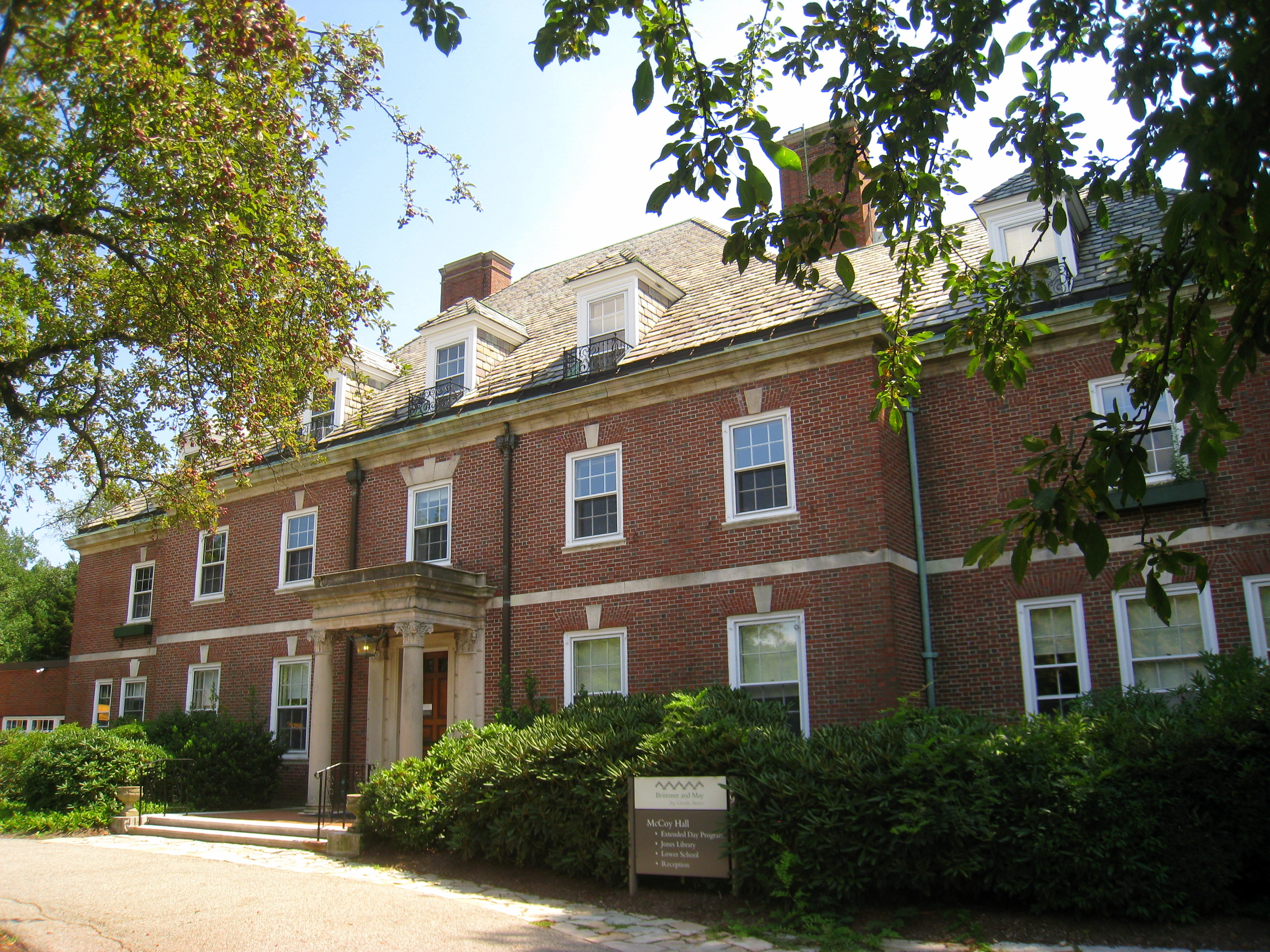 McCoy Hall, Brimmer and May School, 69 Middlesex Road, Chestnut Hill, Massachusetts, USA.